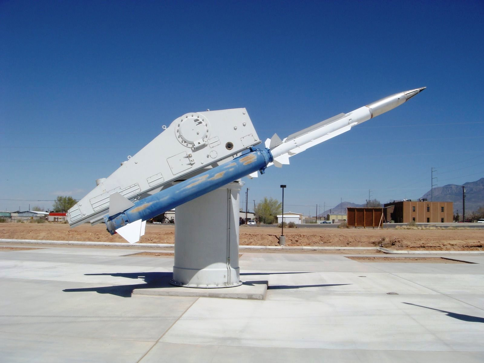 Navy Standard Missile-2 missiles on a missile launcher.